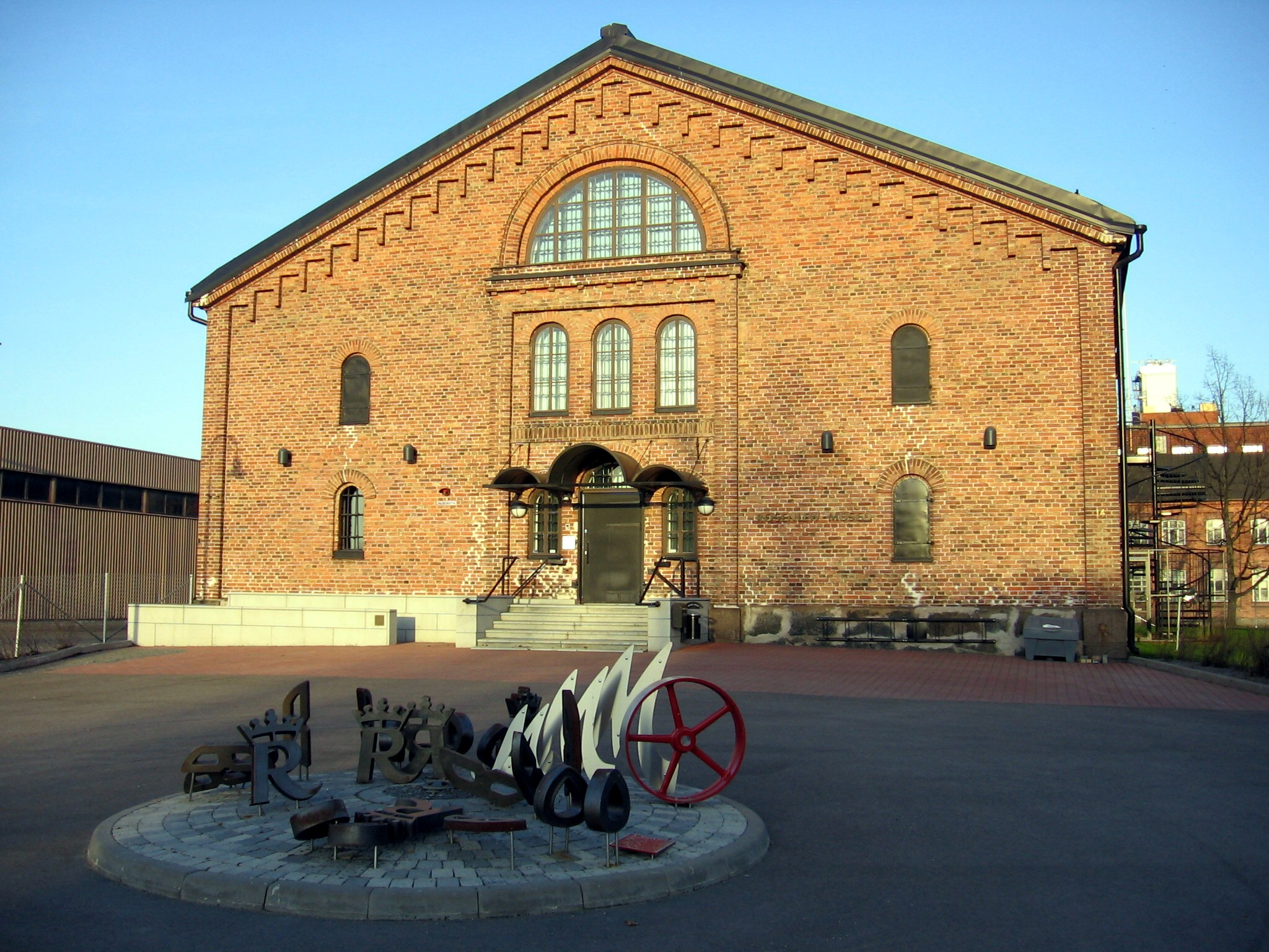 Rosenlew museum